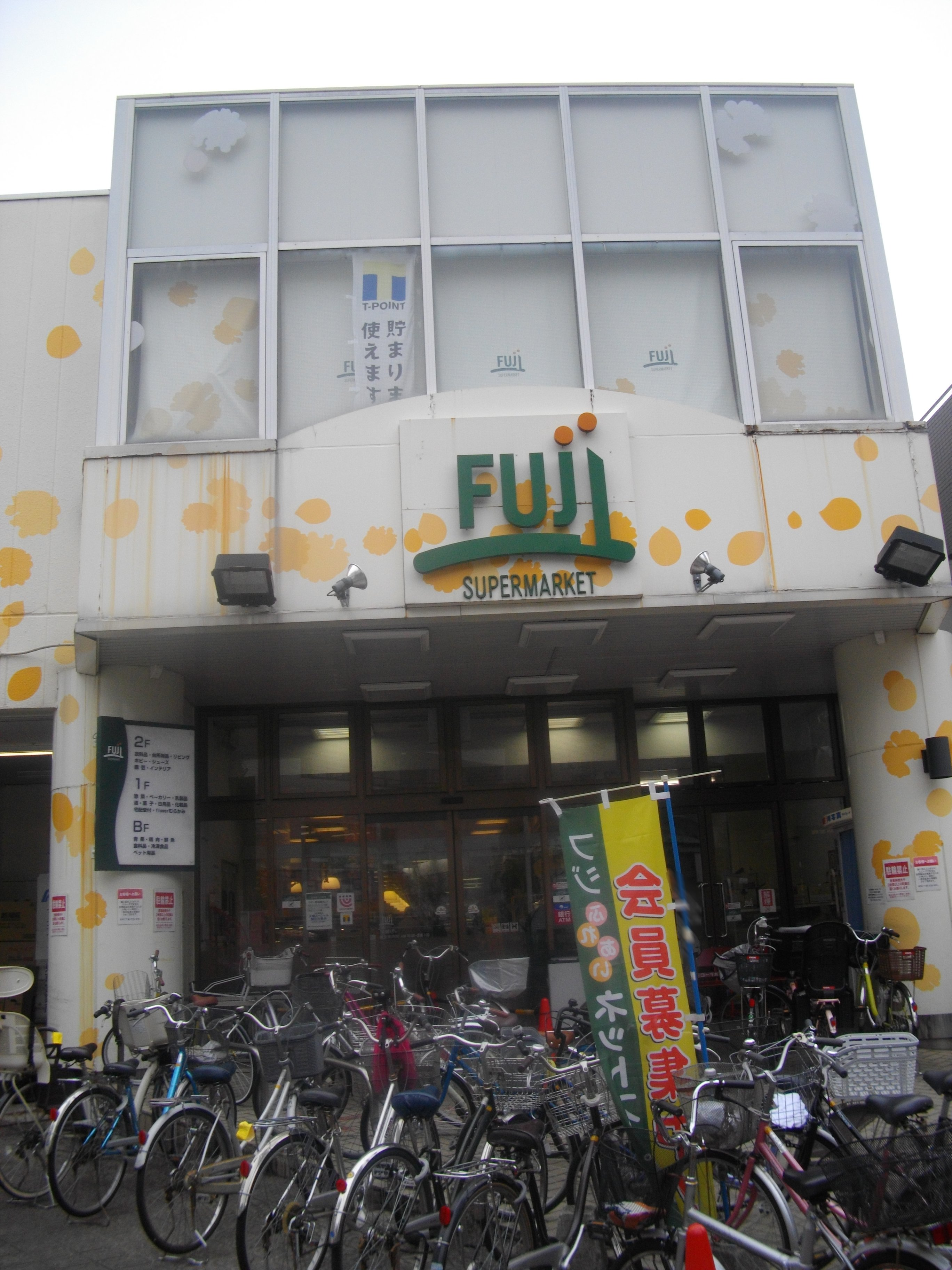 A photo of FUJI CITIO(a supermarket inTokyo.) Yoga branch shop ,Setagaya-ku,Tokyo,Japan.